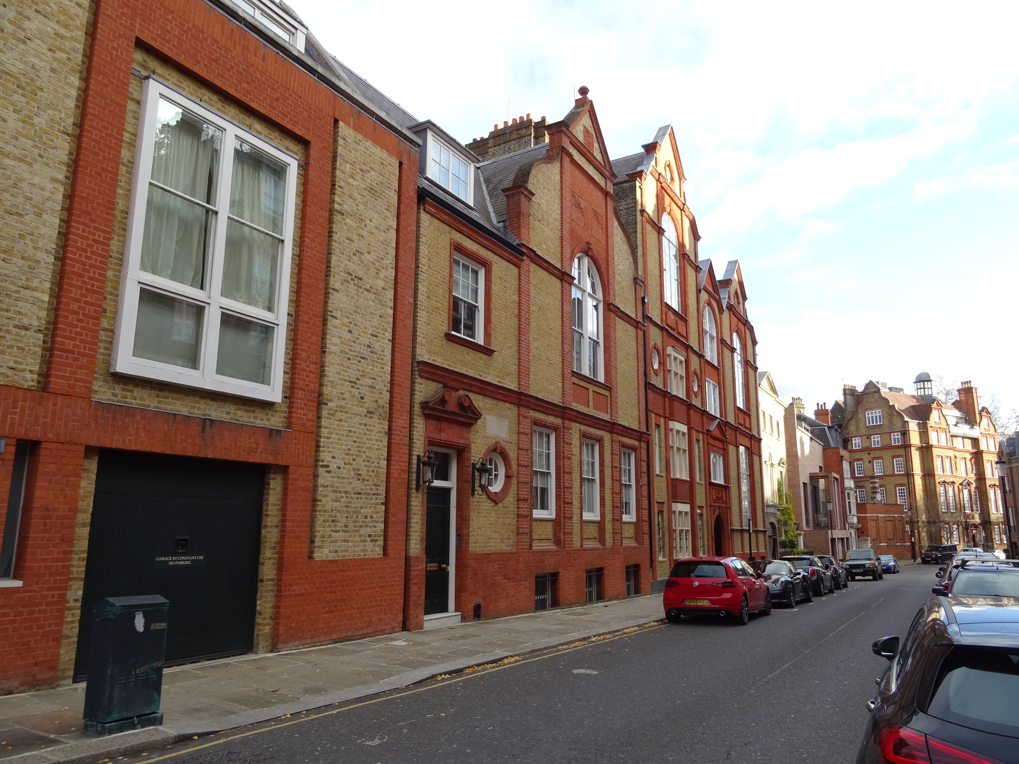 31 Tite Street, Chelsea, London SW3 4JP - John Singer Sargent lived and worked twenty four years in this house and died here